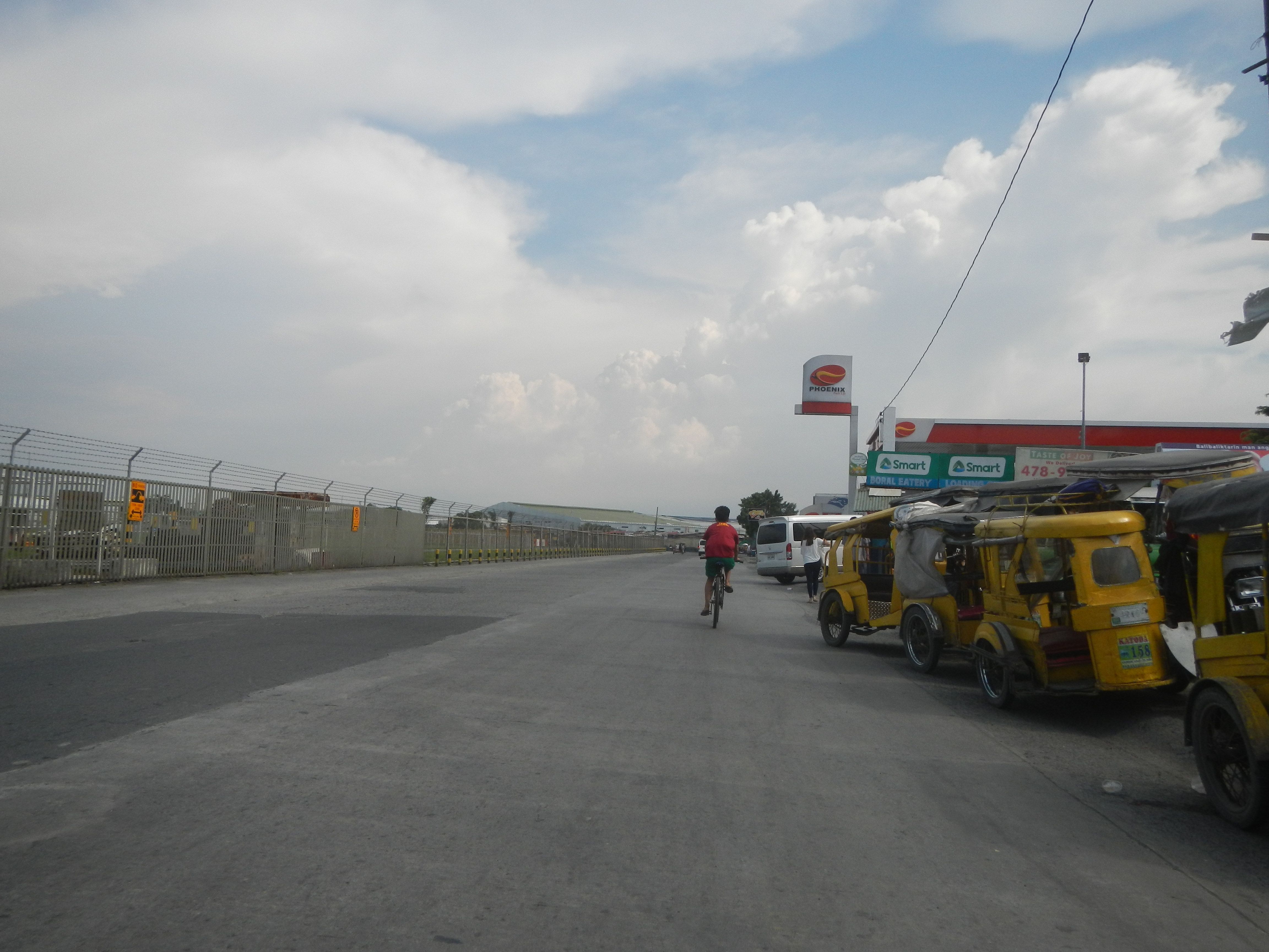 Santo Niño, Parañaque City Multinational Avenue, Parañaque City in Legislative districts of Parañaque 1st District, Districts and barangays Santo Niño 14°30'12"N 121°0'11"E Don Galo 14°30'26"N 120°59'4"E Parañaque City (Note: Judge Florentino Floro, the owner, to repeat, Donor Florentino Floro of all these photos hereby donate gratuitously, freely and unconditionally Judge Floro all these photos to and for Wikimedia Commons, exclusively, for public use of the public domain, and again without any condition whatsoever).